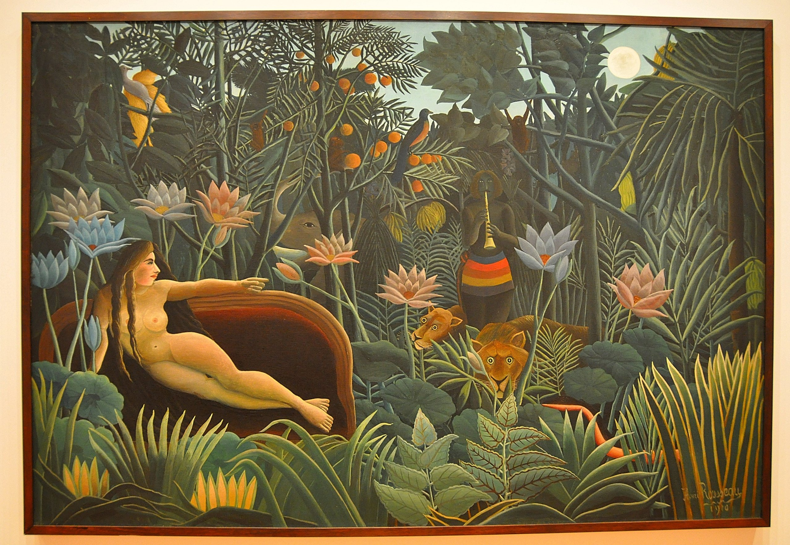 Henri Rousseau. The Dream. 1910. Oil on canvas, 6' 8 1/2" x 9' 9 1/2" (204.5 x 298.5 cm). Gift of Nelson A. Rockefeller Wikipedia Loves Art at the Museum of Modern Art This photo of item # 252.1954 at the Museum of Modern Art was contributed under the team name "Stephen_Sandoval" as part of the Wikipedia Loves Art project in February 2009. Museum of Modern Art The original photograph on Flickr was taken by Stephen Sandoval—please add a comment to the original Flickr page whenever a use has been made on Wikipedia or another project. Project galleries on Flickr: this institution, this team Henri Rousseau. The Dream. 1910. Oil on canvas, 6' 8 1/2" x 9' 9 1/2" (204.5 x 298.5 cm). Gift of Nelson A. Rockefeller Wikipedia Loves Art at the Museum of Modern Art This photo of item # 252.1954 at the Museum of Modern Art was contributed under the team name "Stephen_Sandoval" as part of the Wikipedia Loves Art project in February 2009. Museum of Modern Art The original photograph on Flickr was taken by Stephen Sandoval—please add a comment to the original Flickr page whenever a use has been made on Wikipedia or another project. Project galleries on Flickr: this institution, this team